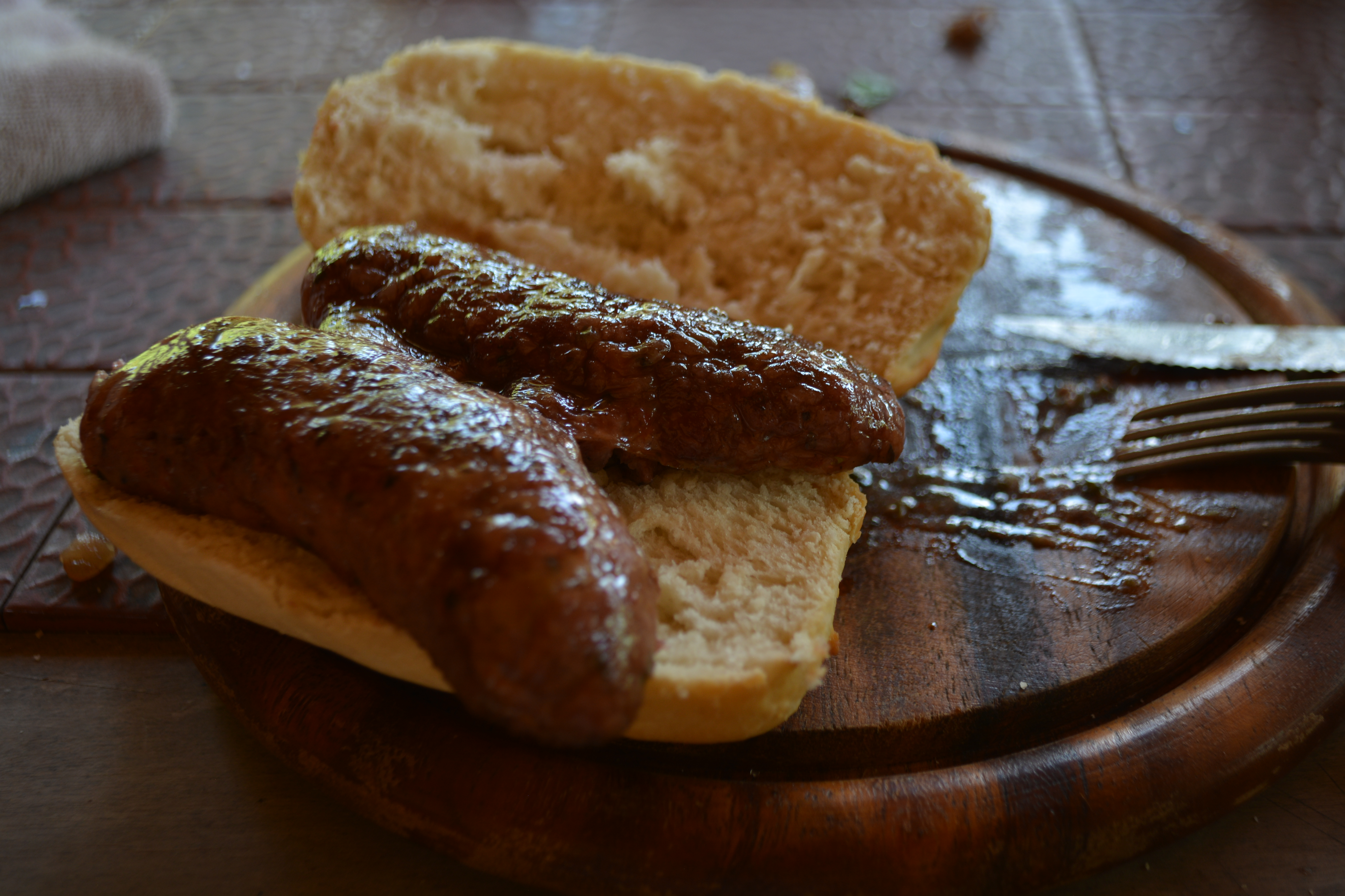 Choripán with recent grilled chorizo sausage.